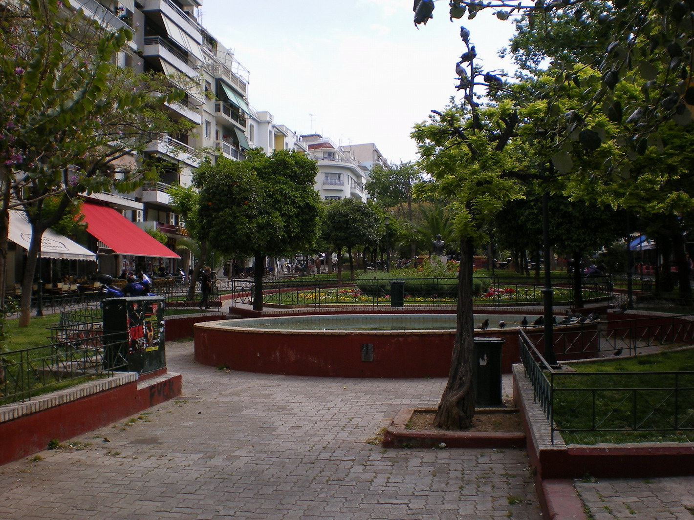 Phokionos Negri street in Kypseli, Athens, Greece